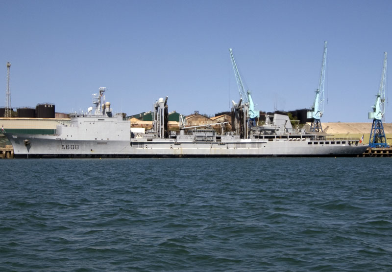 French navy aux. ship A608 Var (Durance class) dockside in Mombasa.